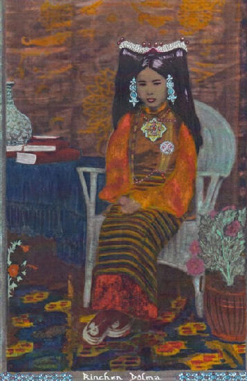 Mary Tsarong was the first Tibetan girl to receive a western education. Photo sent to former headmistress of Queen's Hill School Carolyn Stahl in 1921 with the words "Sincerely - Loving Pupil Mary Tsarong". Miss Stahl had a neatly typed note on it that says: "A Tibetan woman of the higher class from Lhasa. A pupil in Queen's Hill 1916 - 1919. Was Eleven when she came. In school she was not the subdued phlegmatic looking person shown here. She was an energetic high-spirited girl, quite capable of holding her own among the other girls. She dressed in English clothes and quickly learned English and entered into all the school life. She began in the First Grade and finished in the Fourth. The journey from Lhasa to Darjeeling took seventeen days on horseback, the whole way across mountainous country."